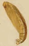 Stainton’s Natural History of the Tineina (1855–1873): Elachista atricomella